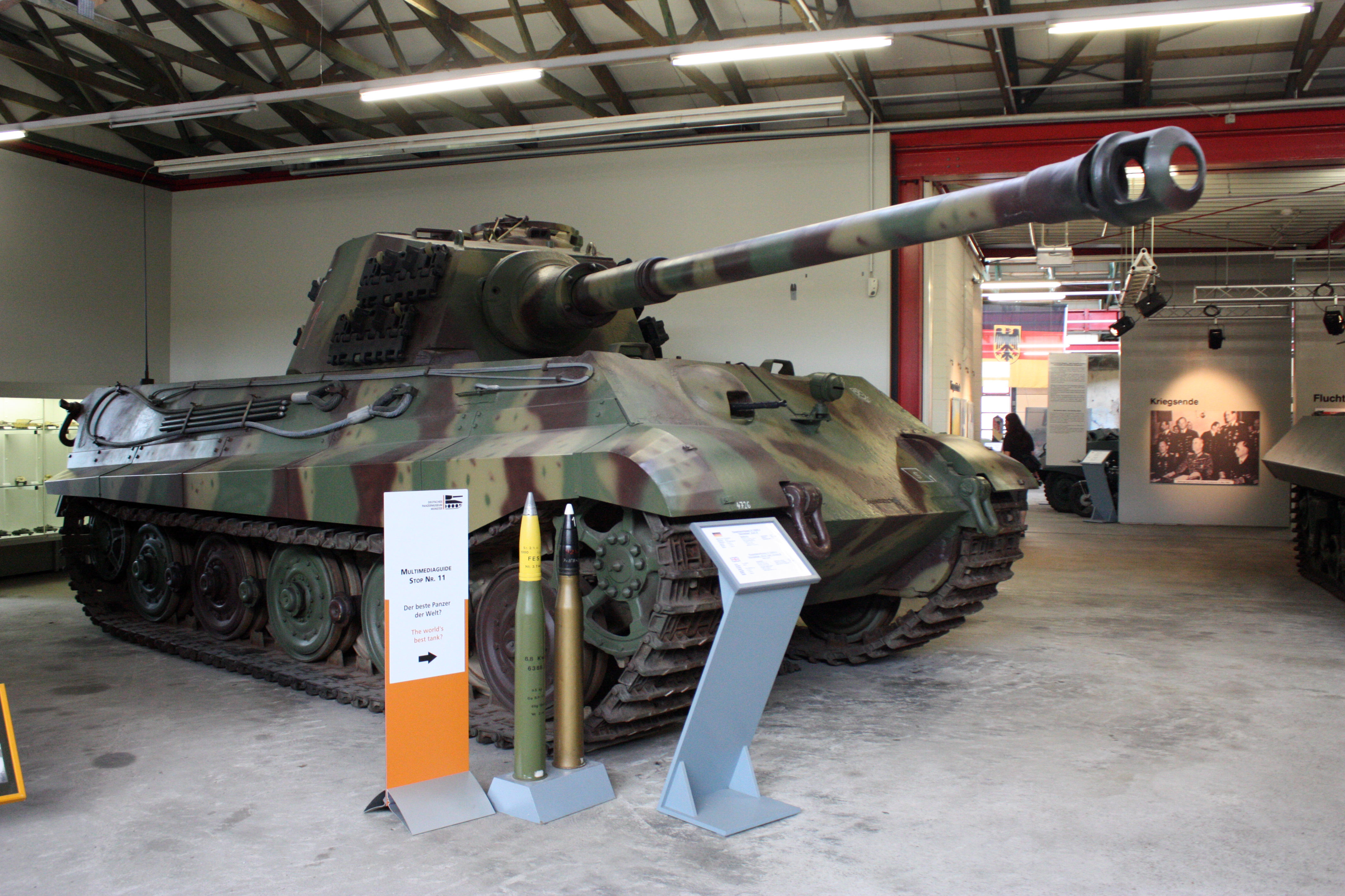 German Tank Museum